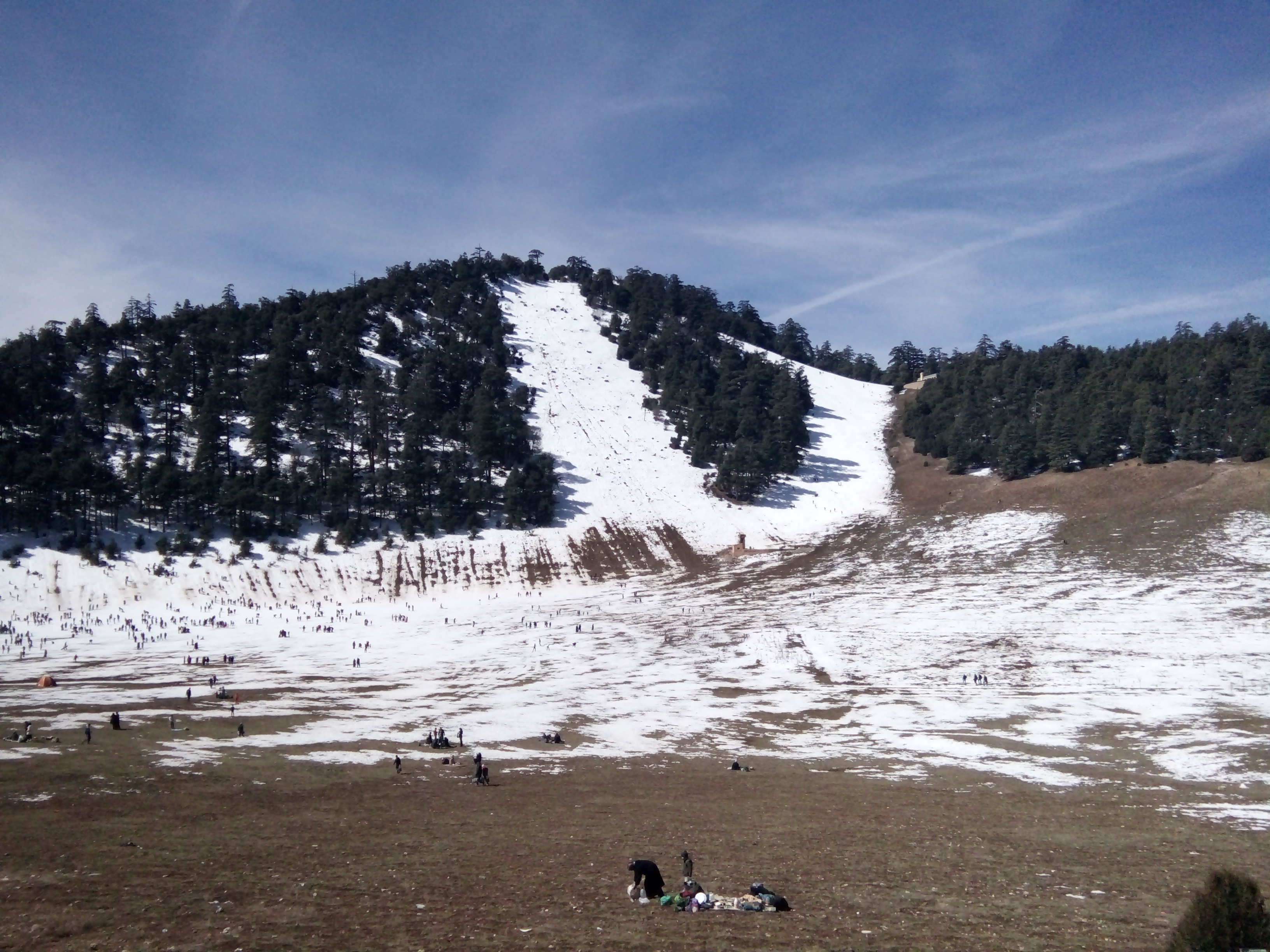 Michlifen, Morocco - (Jbel Hebri) with snow and tourists.